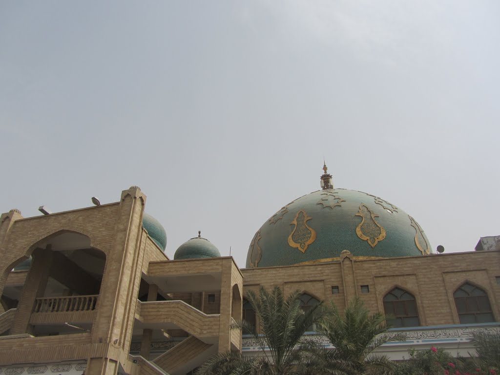 Mosque Moosovie in Basra City, Iraq